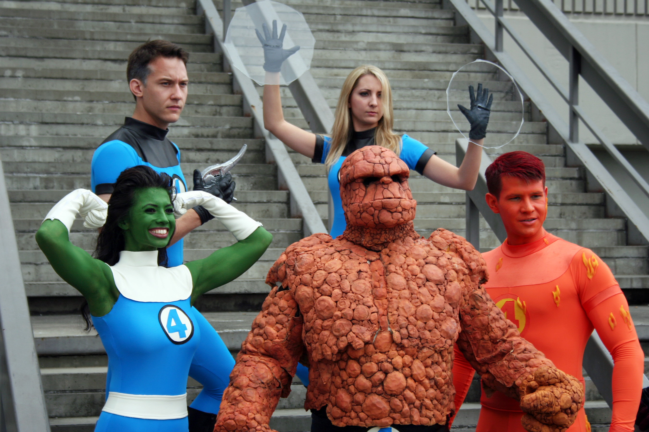 Cosplays of the Fantastic Four at the Dragon Con 2011